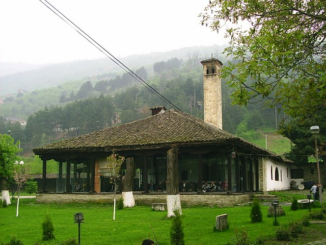 Arabati Baba Teḱe, beshiktash sanctuary in Tetovo, Republic of Macedonia